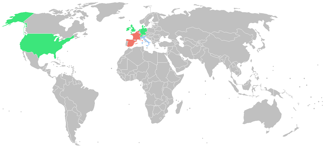 Countries that have won Tour de France